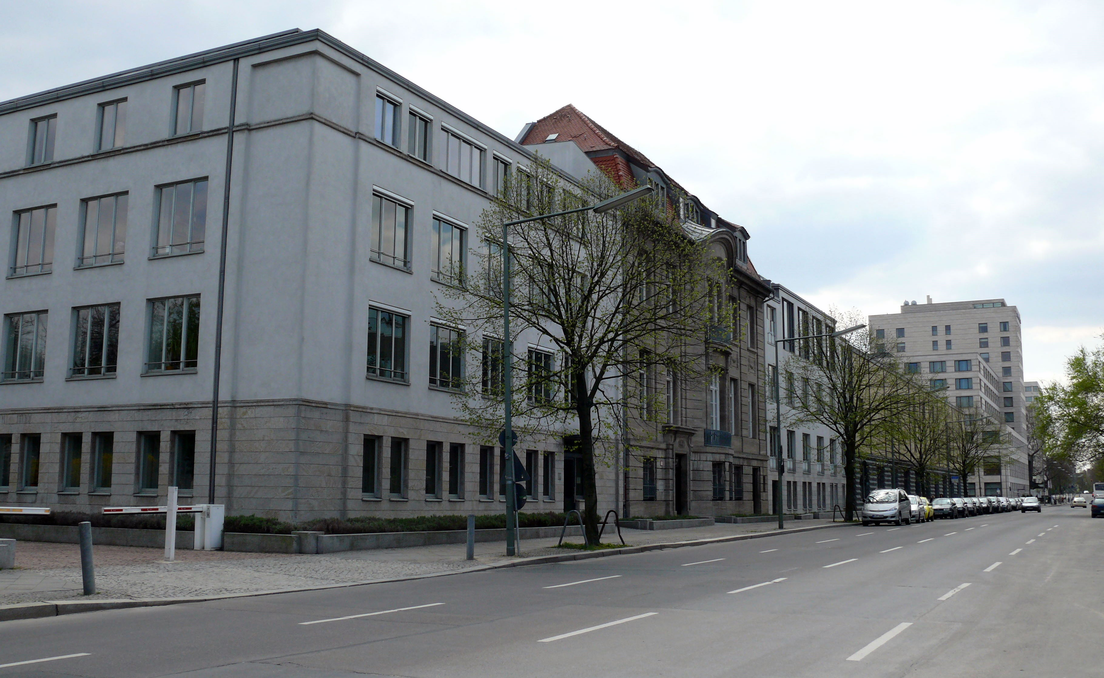 Berlin-Tiergarten Stauffenbergstraße